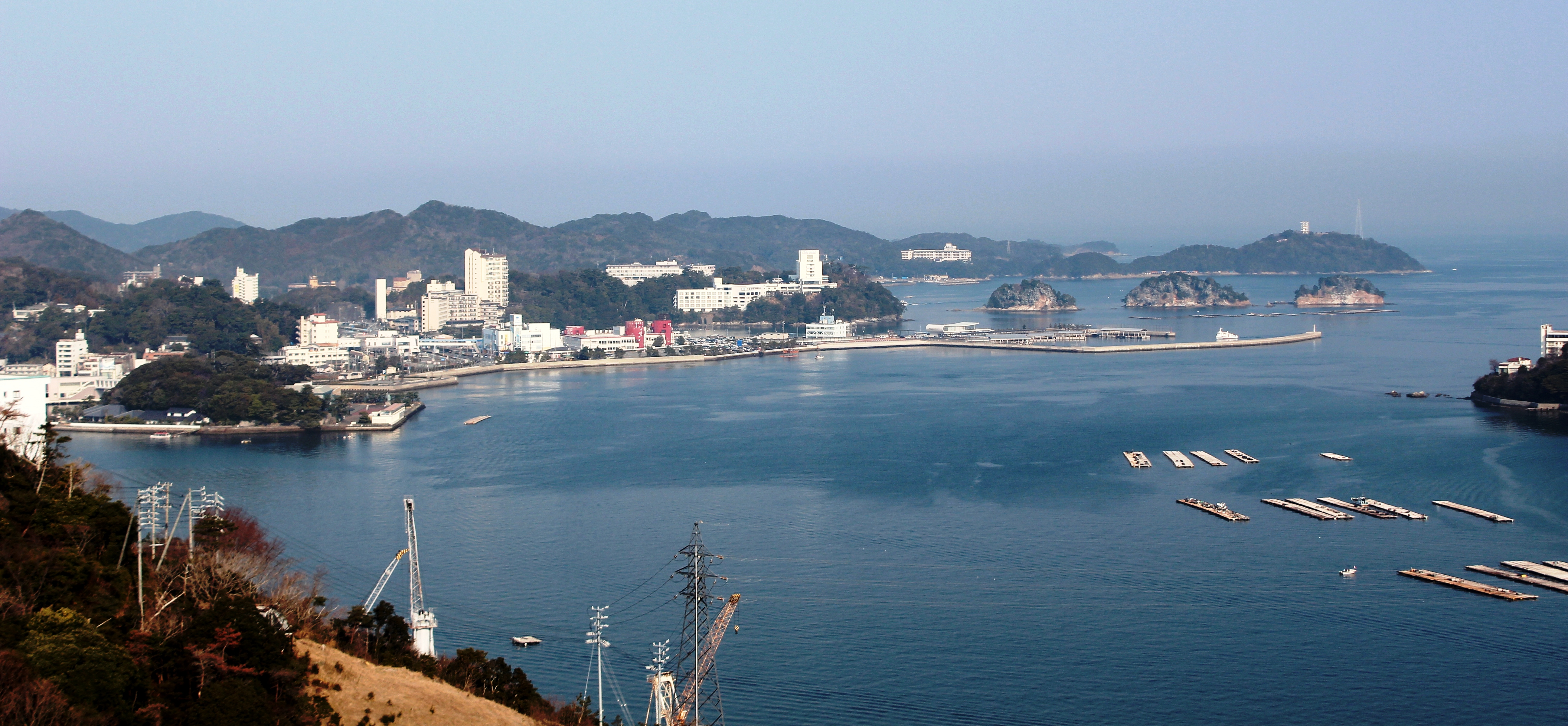 Port of Toba in Mie prefecture, Japan.